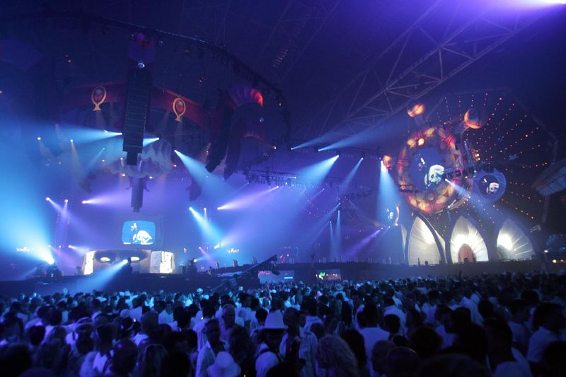 Sensation White 2006